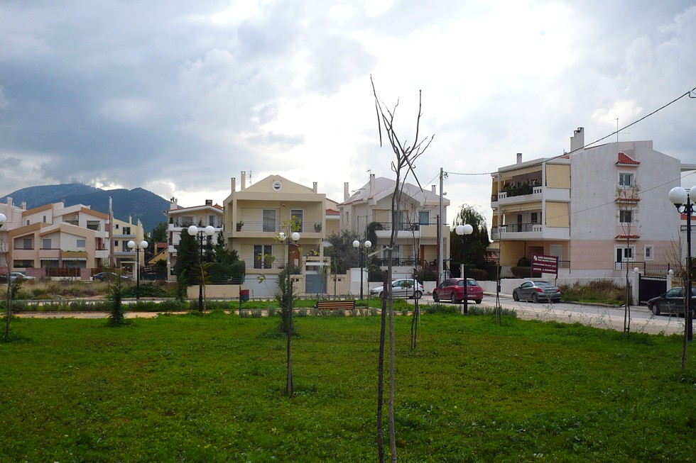 Patima Geraka